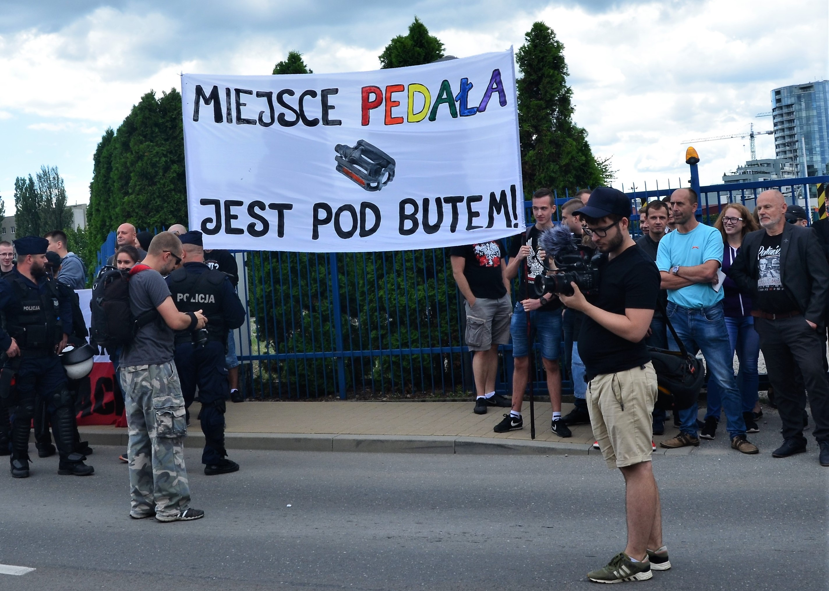 MW-Protesters chant Nazi slogan in Rzeszów: fag's place is under the boot!